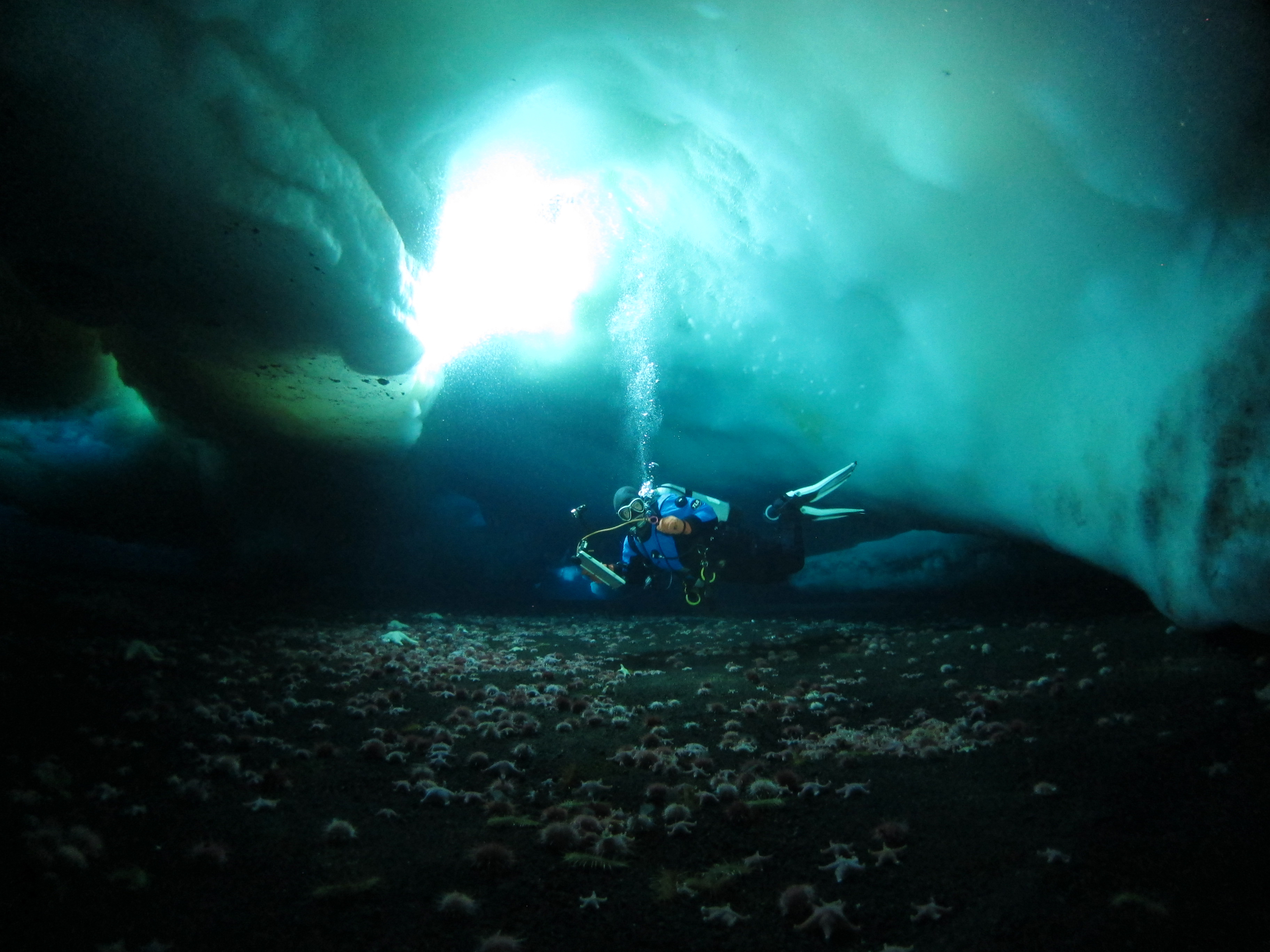 National Science Foundation Artist and Writer participant Kirsten Carlson sketches on her art slate, and films with a GoPro camera while diving near Turtle Rock in McMurdo Sound. She was exploring the shallow ice caves and doing research for an upcoming exhibit entitled Under the Ice.